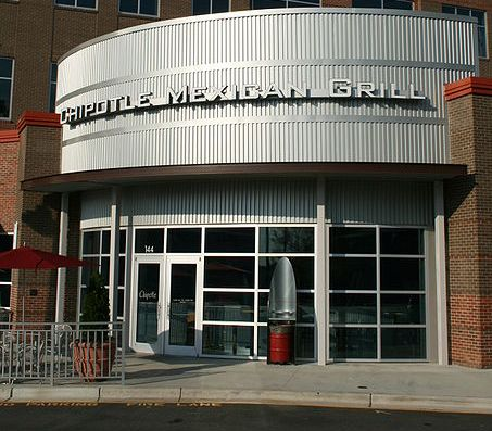 Chipotle Mexican Grill at Lakeview (2608 Erwin Road) next to Duke University in Durham, North Carolina.